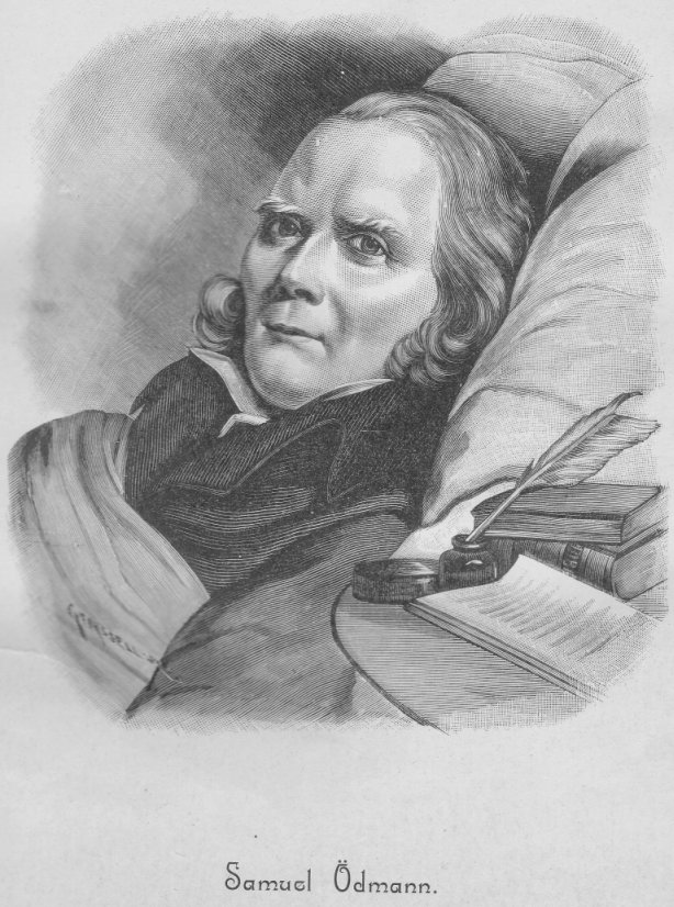 Samuel Lorentz Ödman (1750-1829), Swedish author